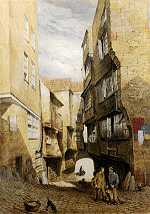 Cow Lane in Saint Peter Port, Guernsey.